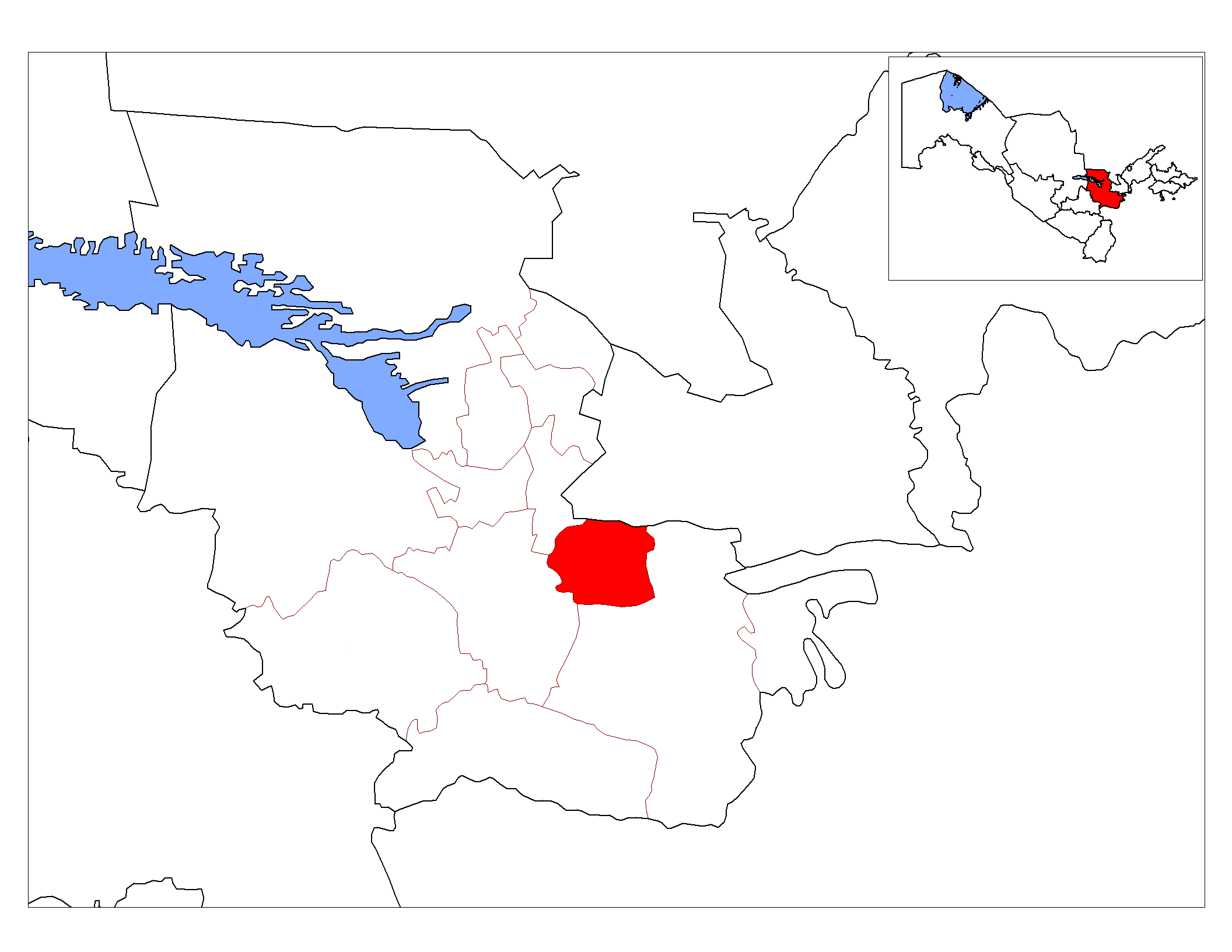 Location map of Zarbdor District in Jizzax Province, Uzbekistan